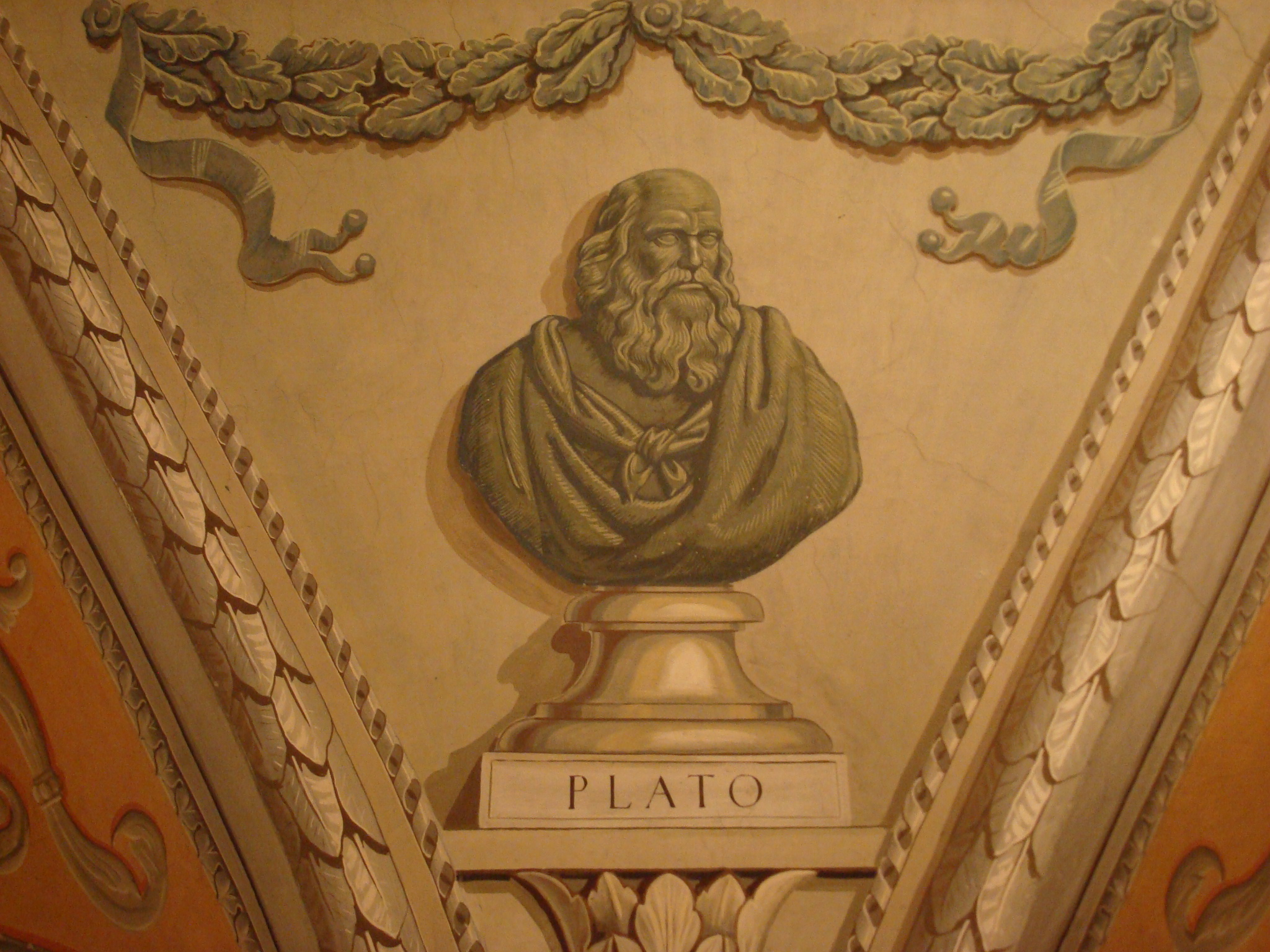 Plato in the Hall of Pranciškus Smuglevičius